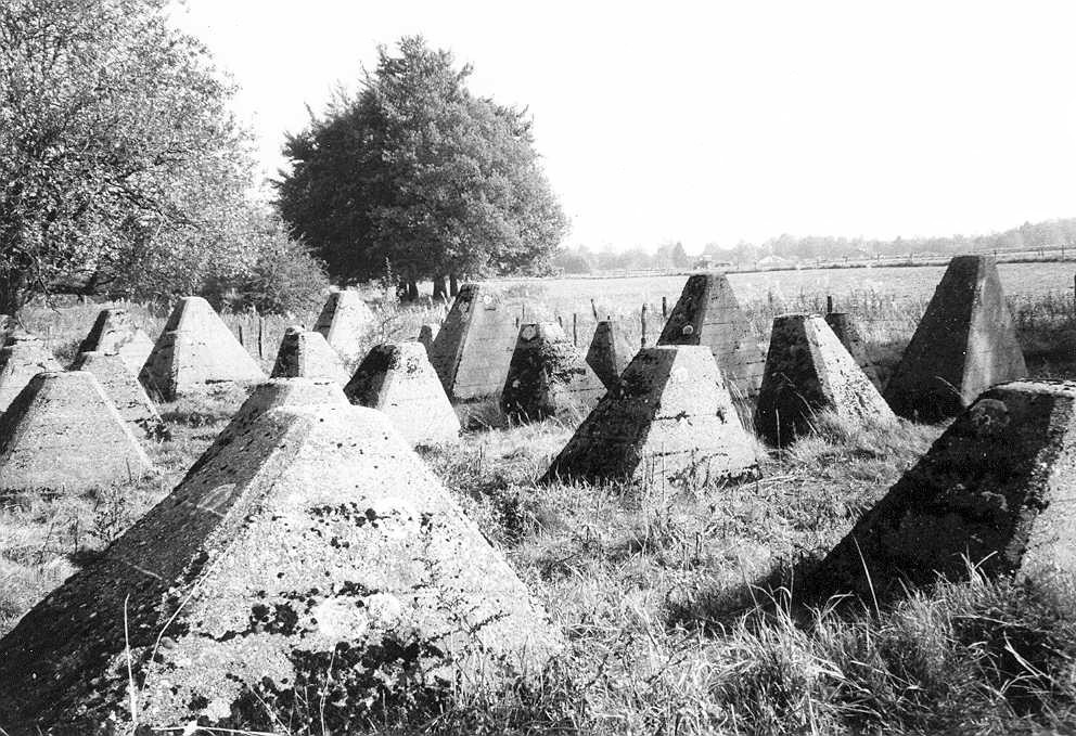 Tank obstacle of the Siegfried Line nearby Aachen in Germany.